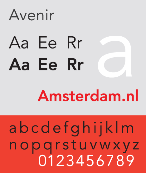 Specimen of the typeface Avenir. Jim Hood